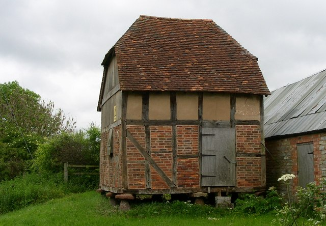 Granary at Trotshill Delightful little halftimbered building raised from the ground on saddle stones to deter the rats and mice.